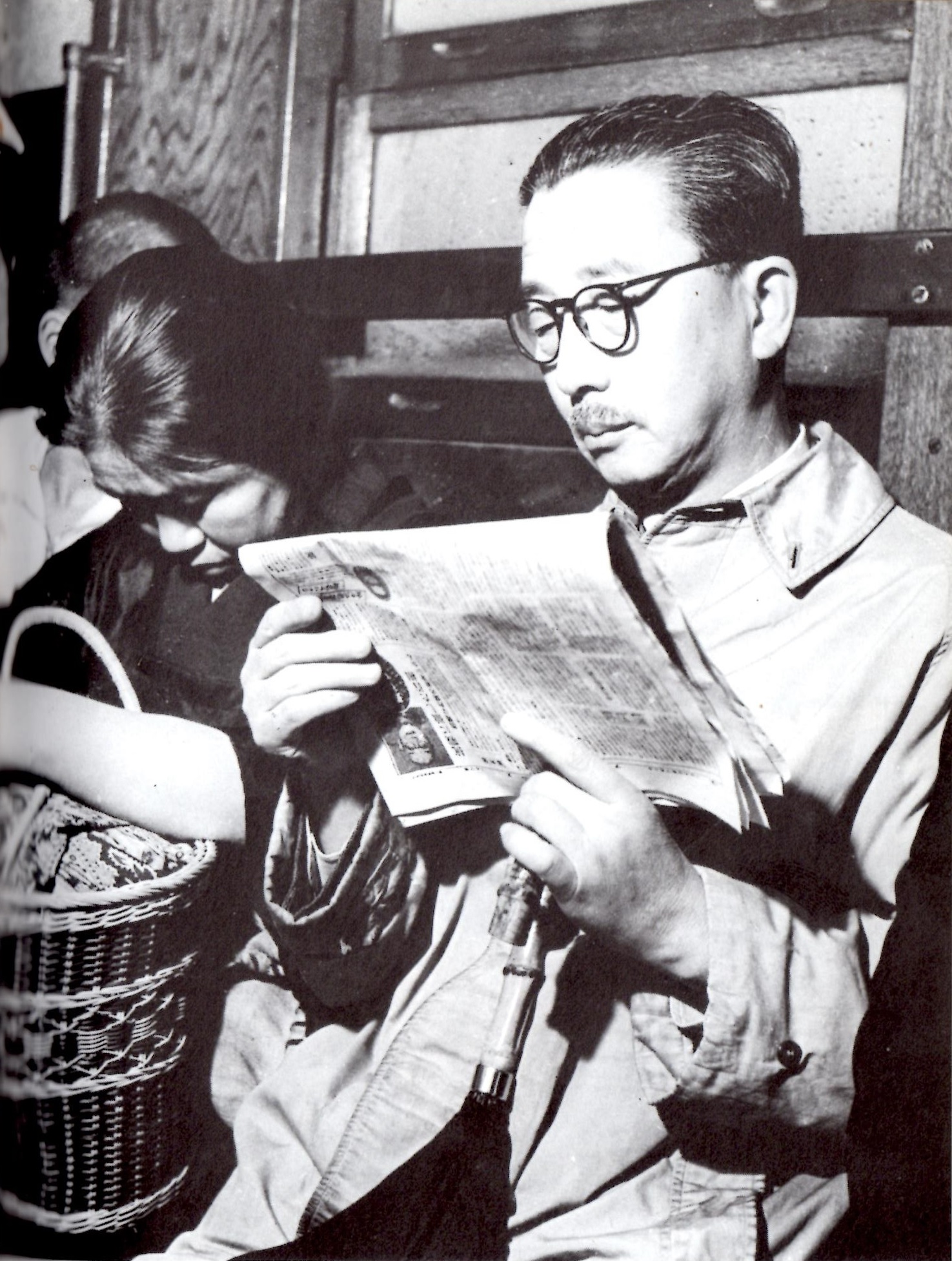 Japanese activist and politician, Nosaka Sanzō (1892-1993)